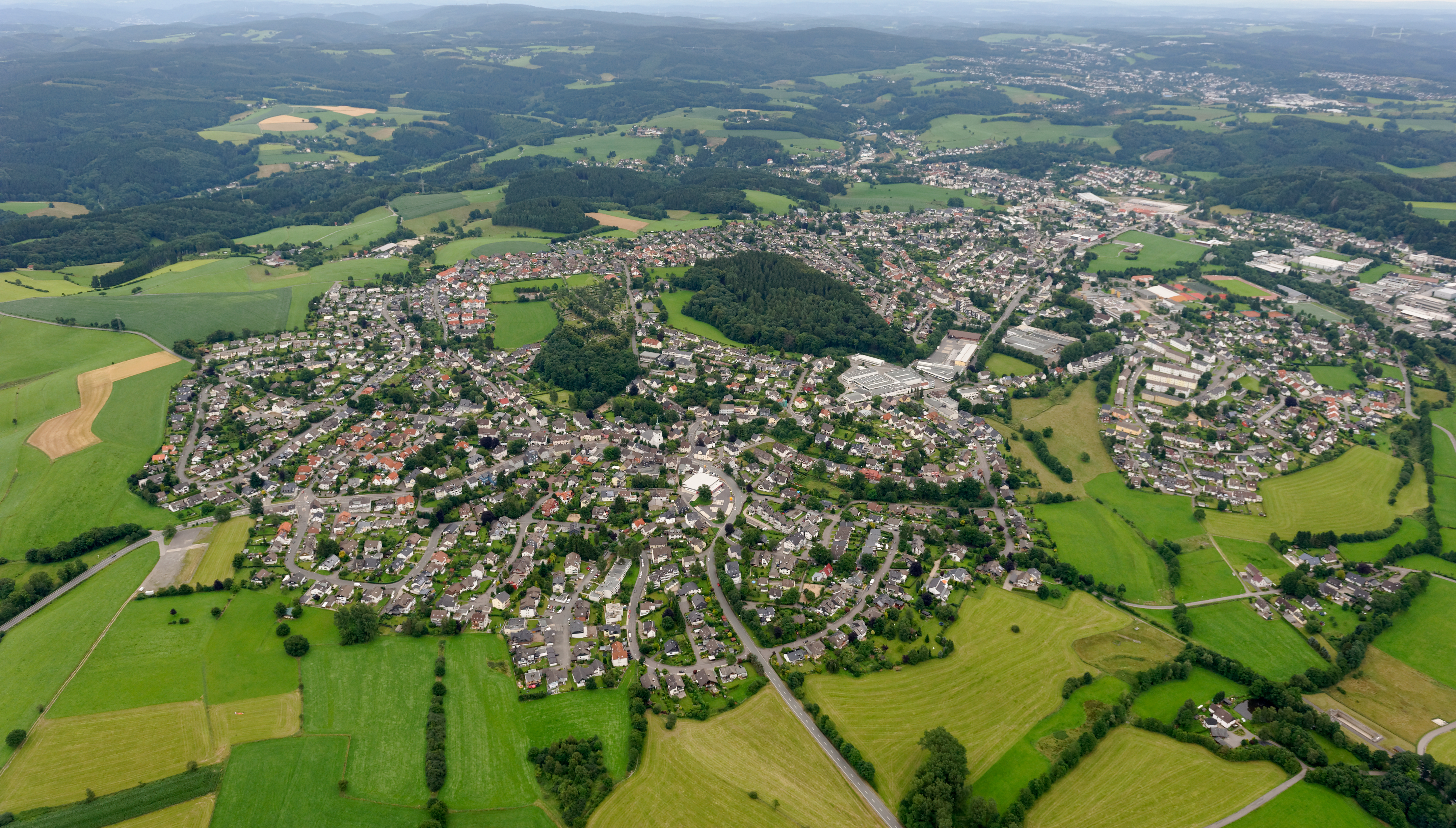 The making of this document was supported by the Community-Budget of Wikimedia Germany. Übersicht der Kernstadt von Kierspe